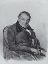 Portrait of Karl Zeerleder (1780-1851), Municipal President (Mayor) of the City of Bern (1832-1847).